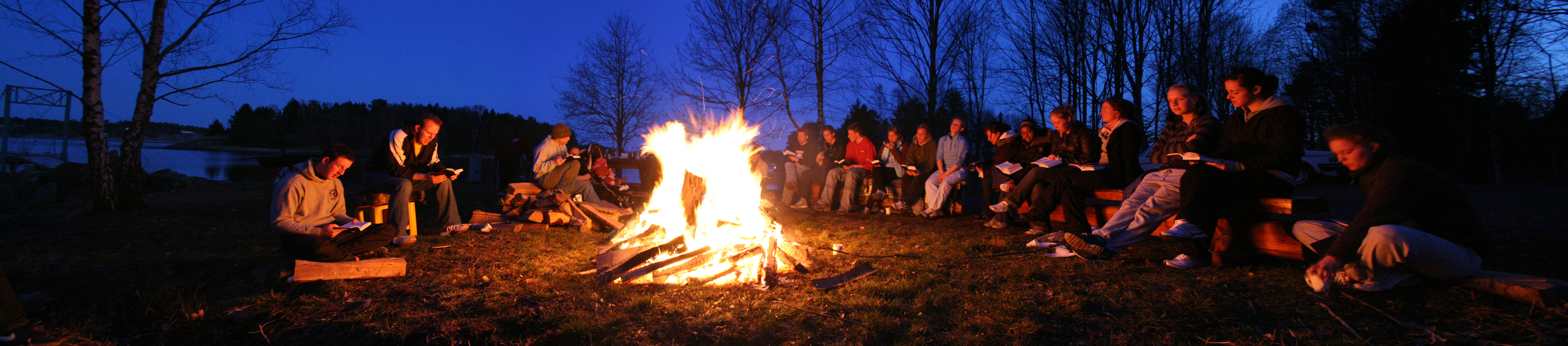 YEP on Brunstad Conference Center around the fire